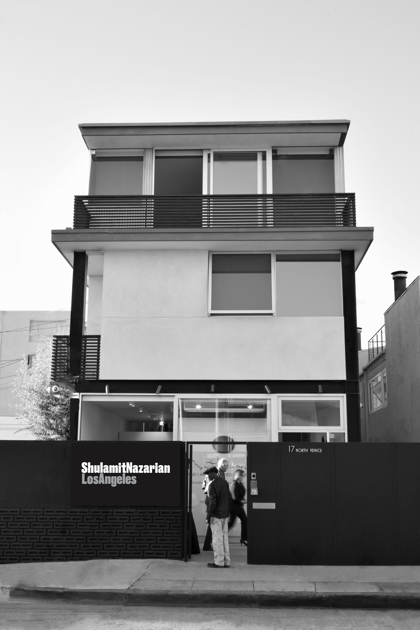 Facade of the Gallery